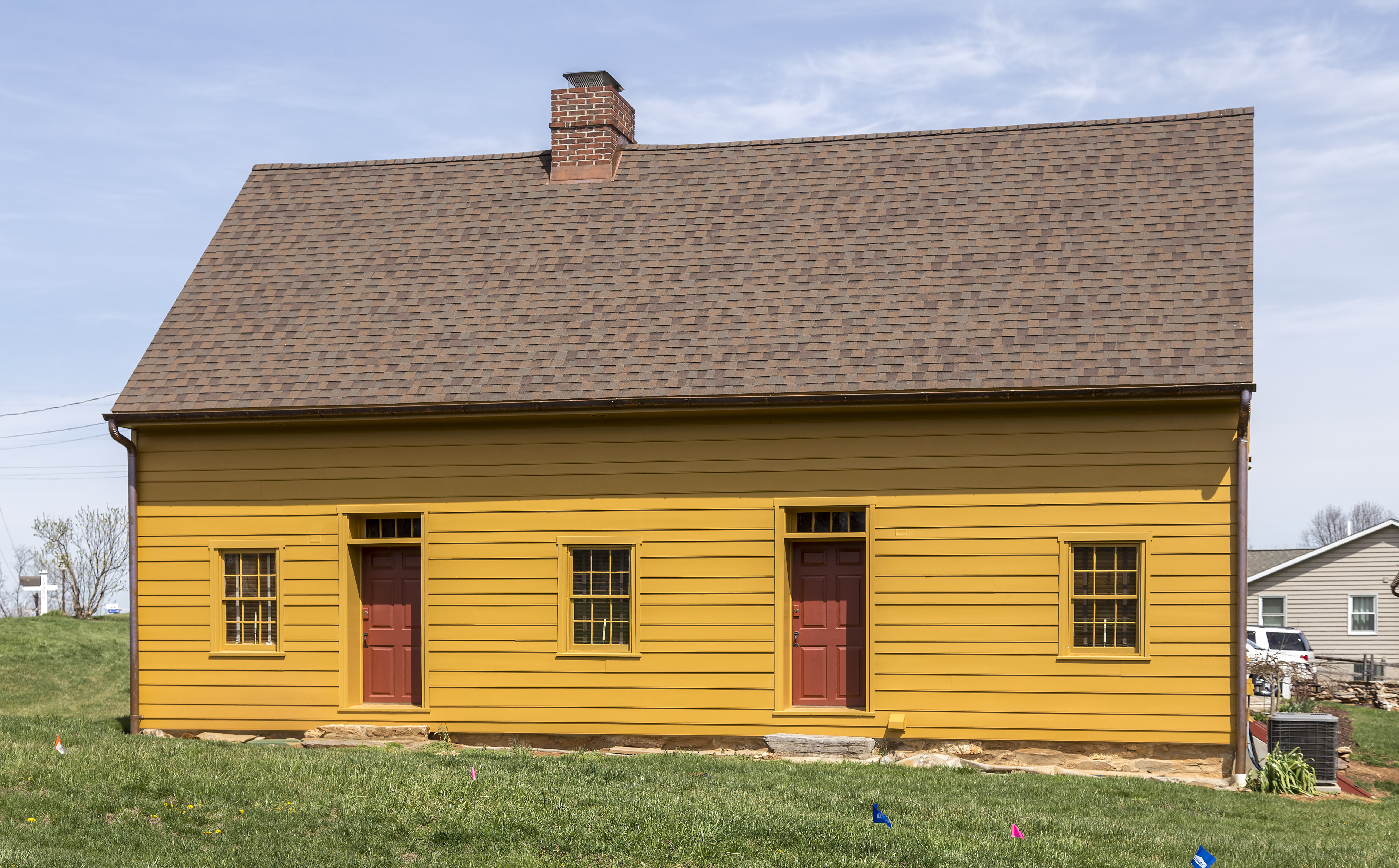 The Geeting farmhouse (restored), Keedysville, Maryland, USA